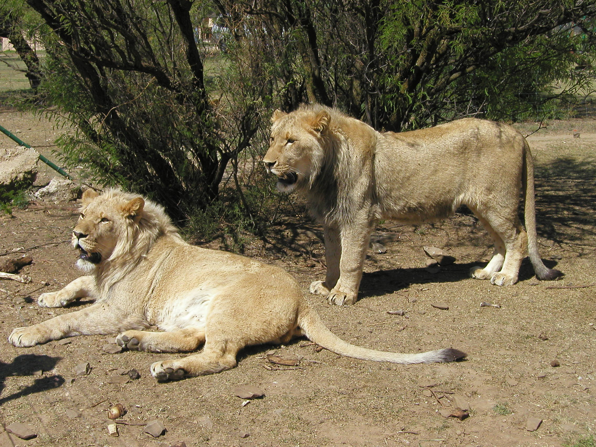 2 young male lions (not lionesses, i.e. female lions) in Africa (exact location?).